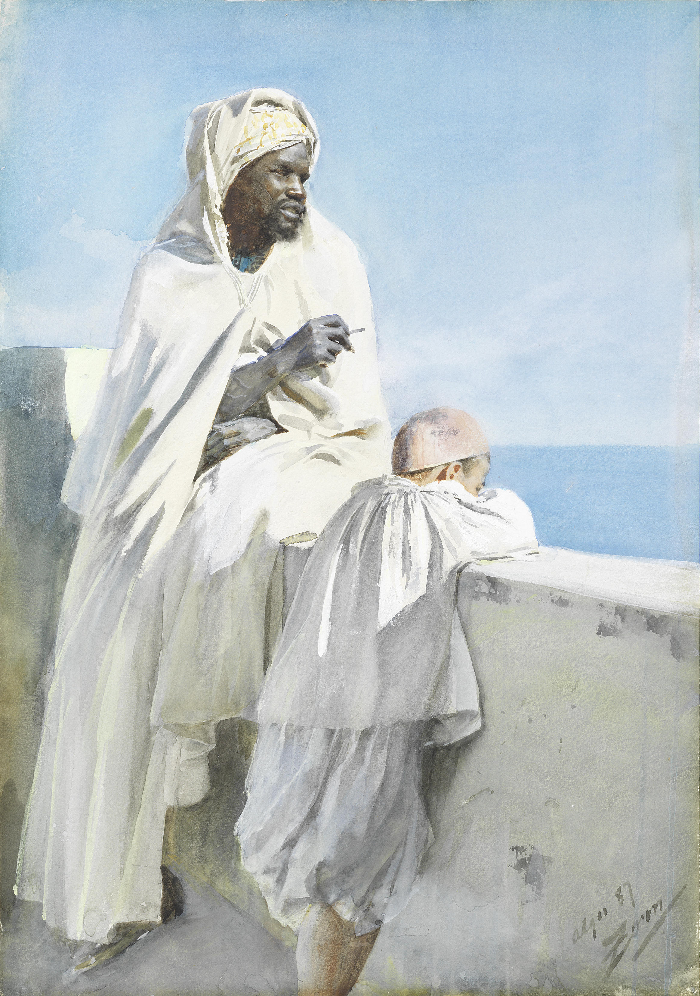 Man and boy in Algiers